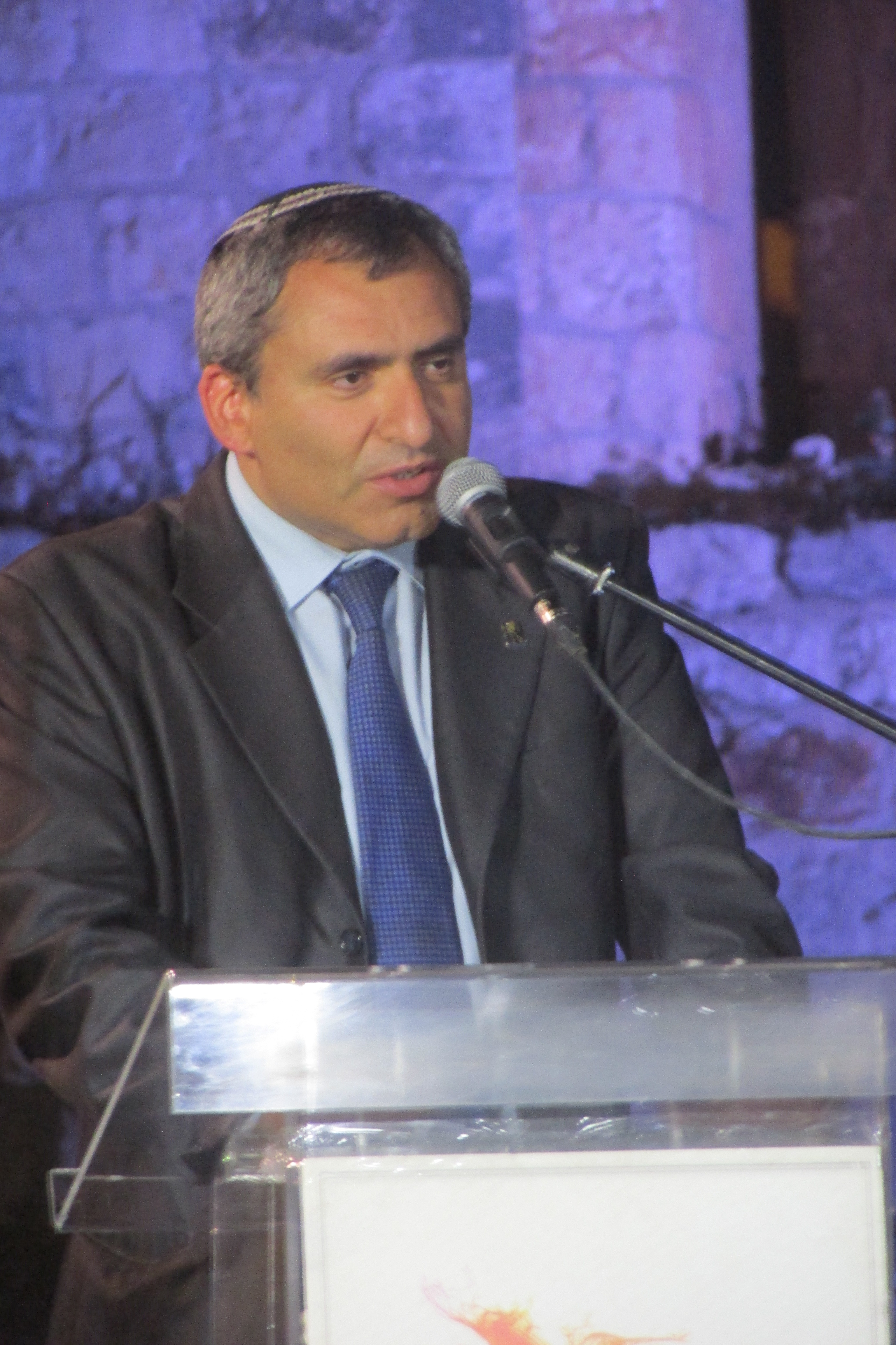 Ze'ev Elkin speaking at a ceremony commemorating 50 years to the uniting of Jerusalem.